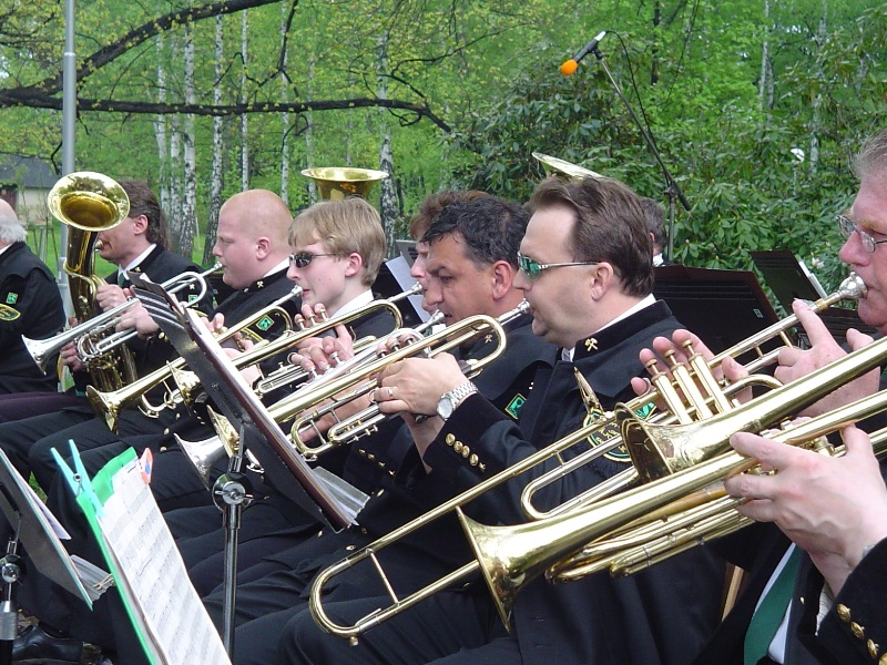 Májovák in Darkov